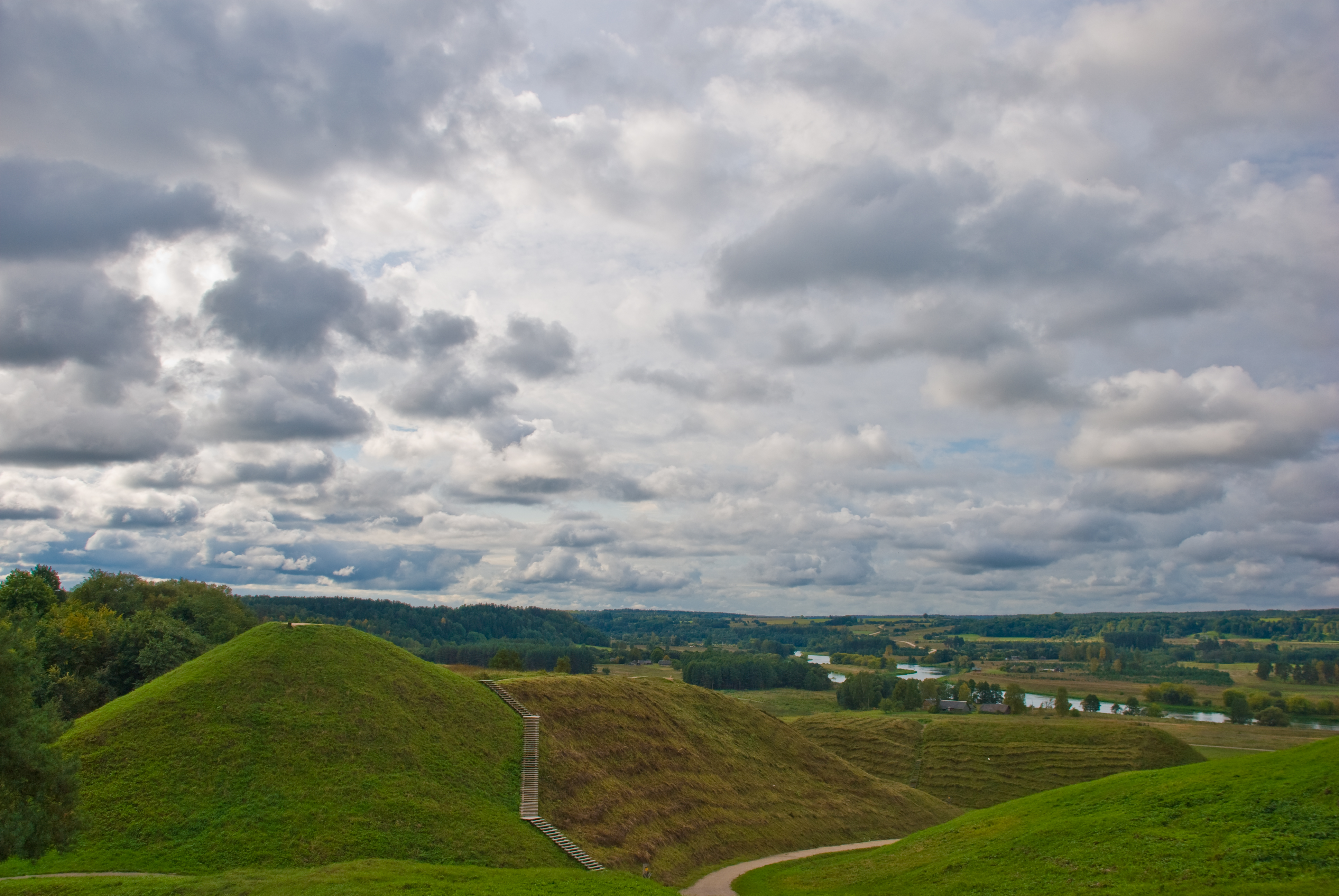 Kernavė, Lithuania